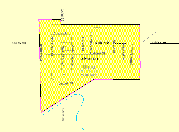 Map of Alvordton, a former village in Williams County, Ohio, United States, with its boundaries at the time of the 2000 census.